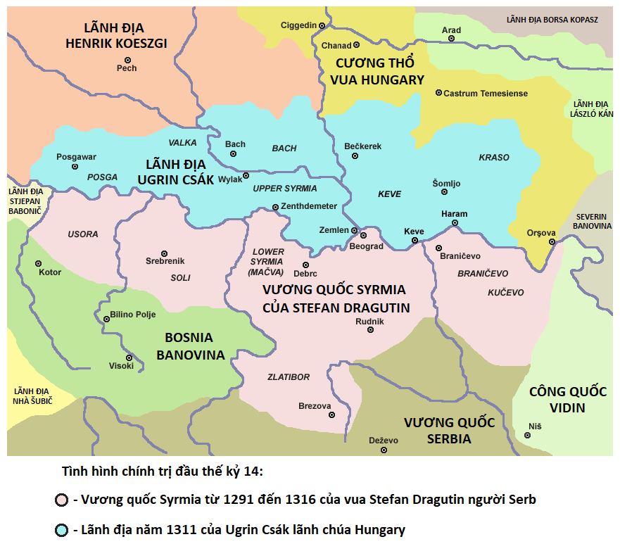 Vietnamse translation from origin Serbian